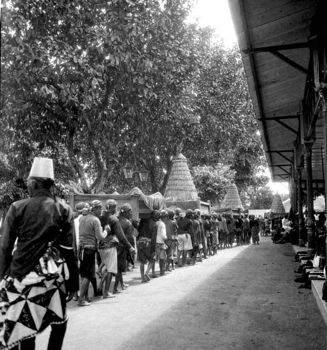 Gunungans in a Garebeg procession in the sultan's kraton